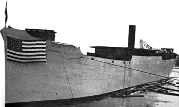 The launching of SS West Avenal at the Schaw-Butcher yard of Western Pipe and Steel Company on 13 October 1918. Note that the ship is being launched sideways